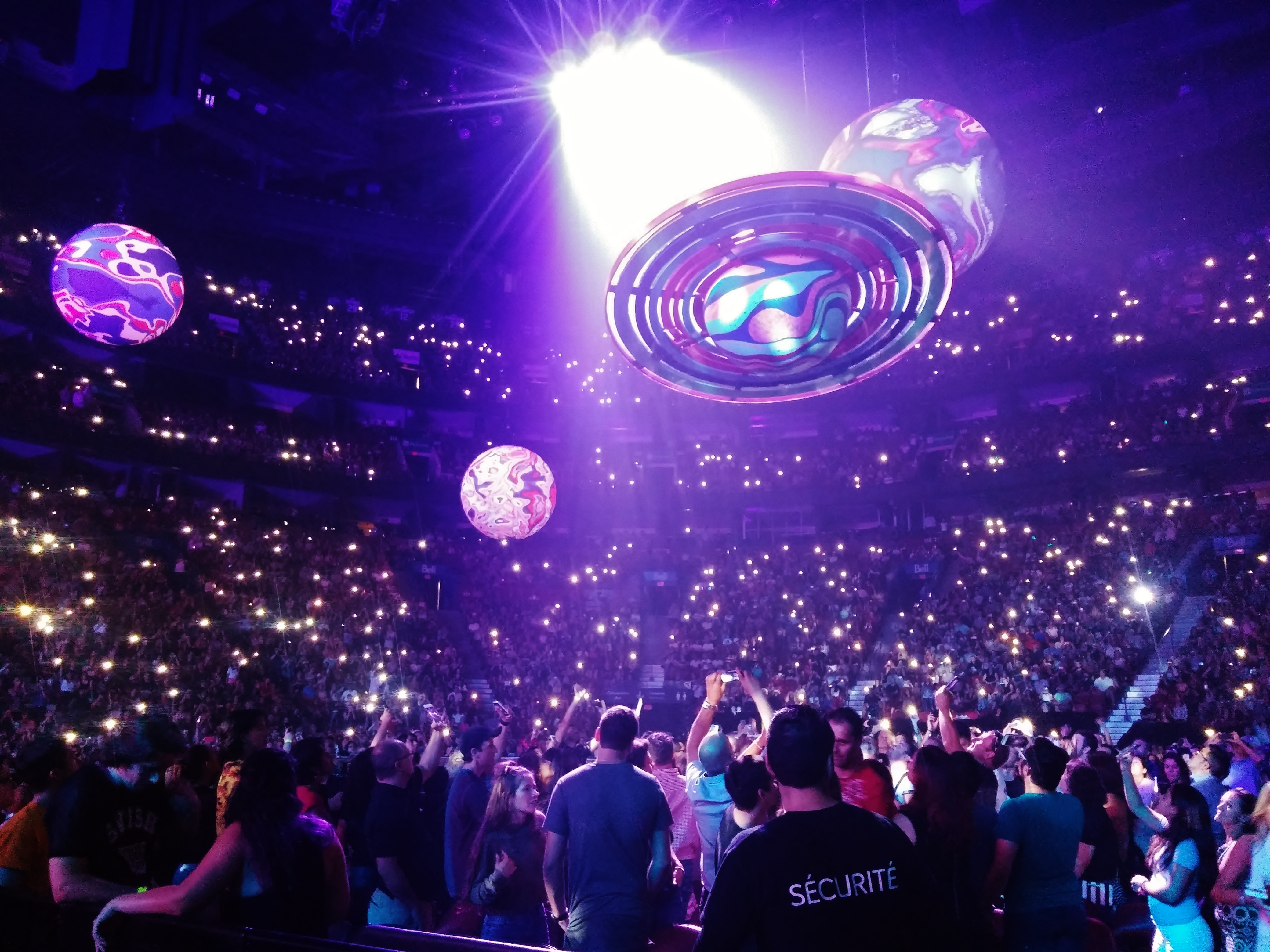 Katy Perry, Witness Tour, Bell Center, Montréal, 19 September 2017 (1)